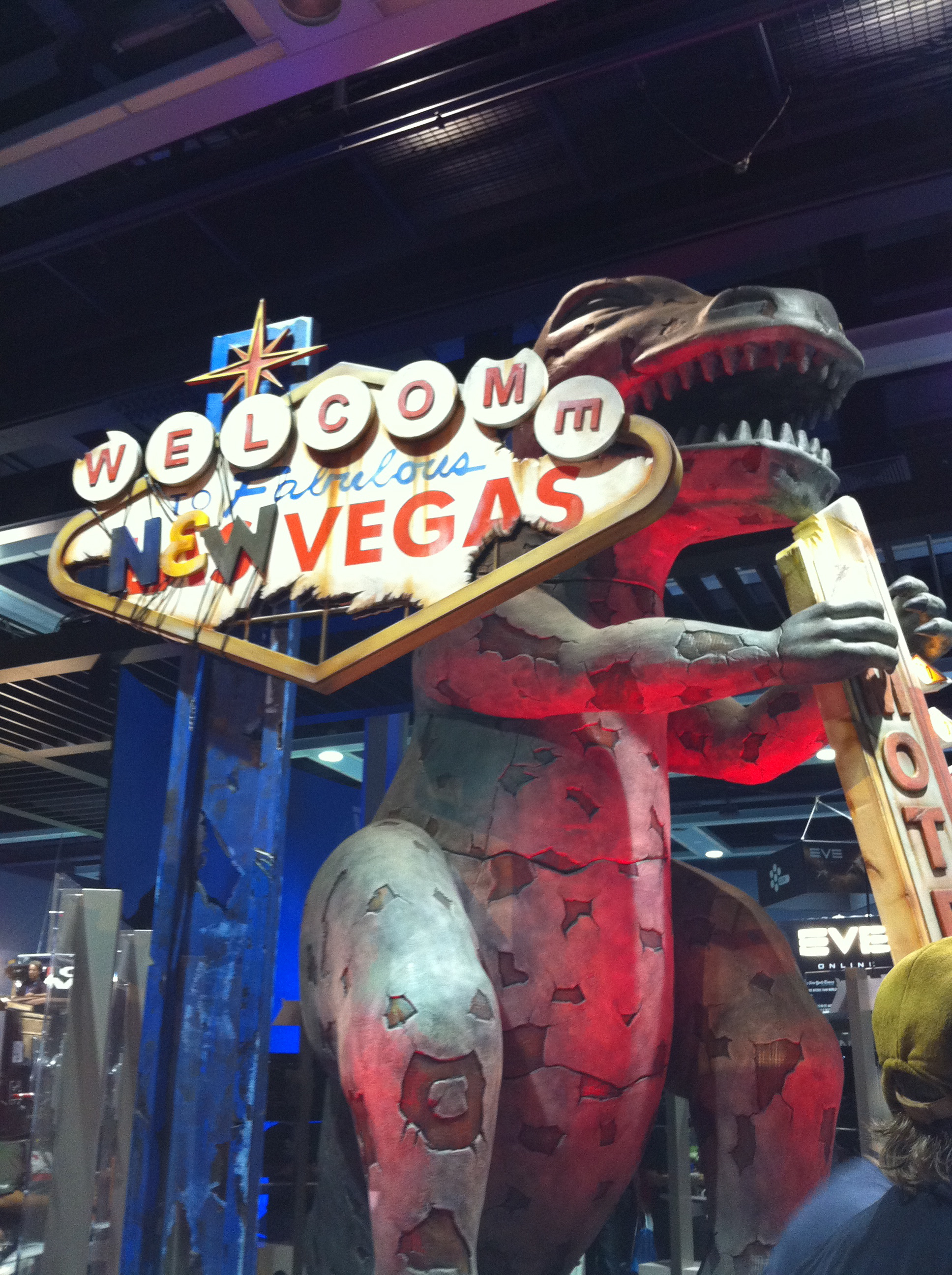 Taken on September 4, 2010 CBD, Seattle, WA, US Apple iPhone